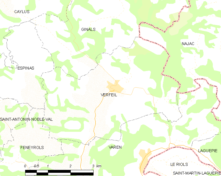 Map of French municipality Verfeil